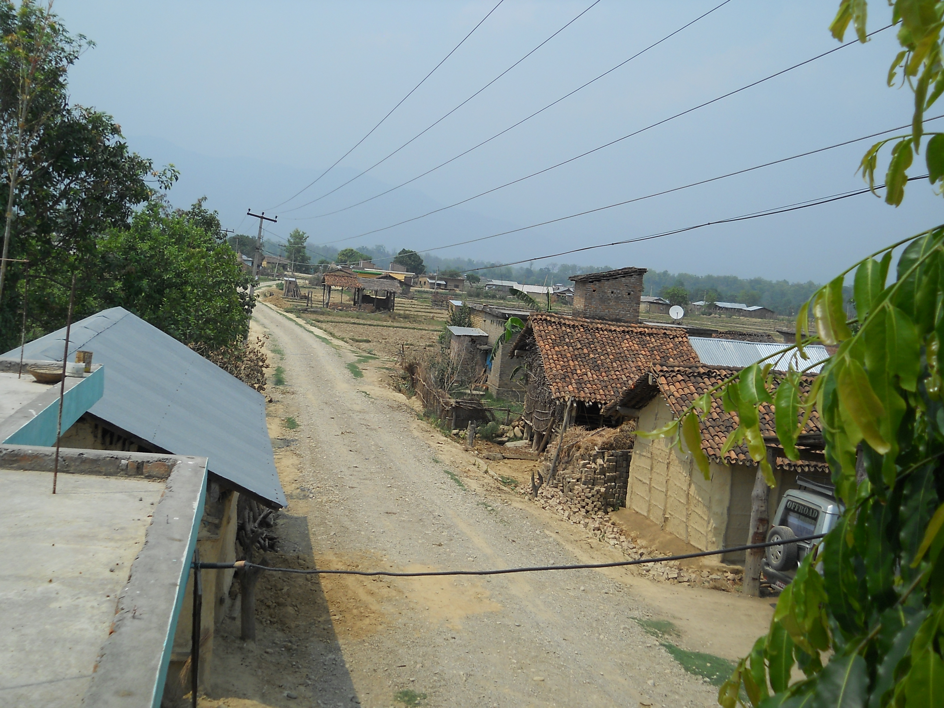 कपिलवस्तुको एक दृष्य